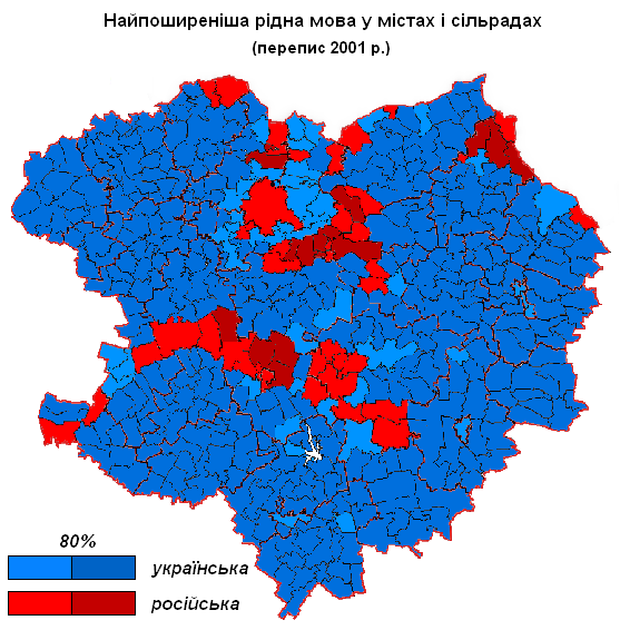 Native languages of Kharkiv oblast according to 2001 census